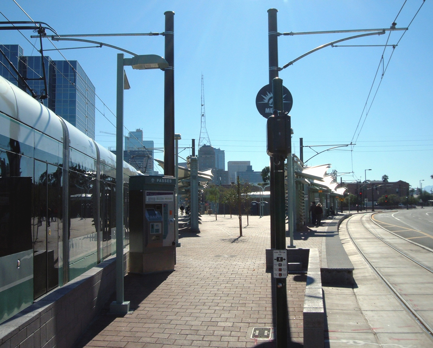 Photograph of the Arts District (or Central at Roosevelt) Station of METRO Light Rail that serves the Phoenix area, Arizona, USA. Visible in this photo are the skyscrapers of downtown Phoenix. This photograph was taken during the light rail's grand opening celebration on December 28, 2008.